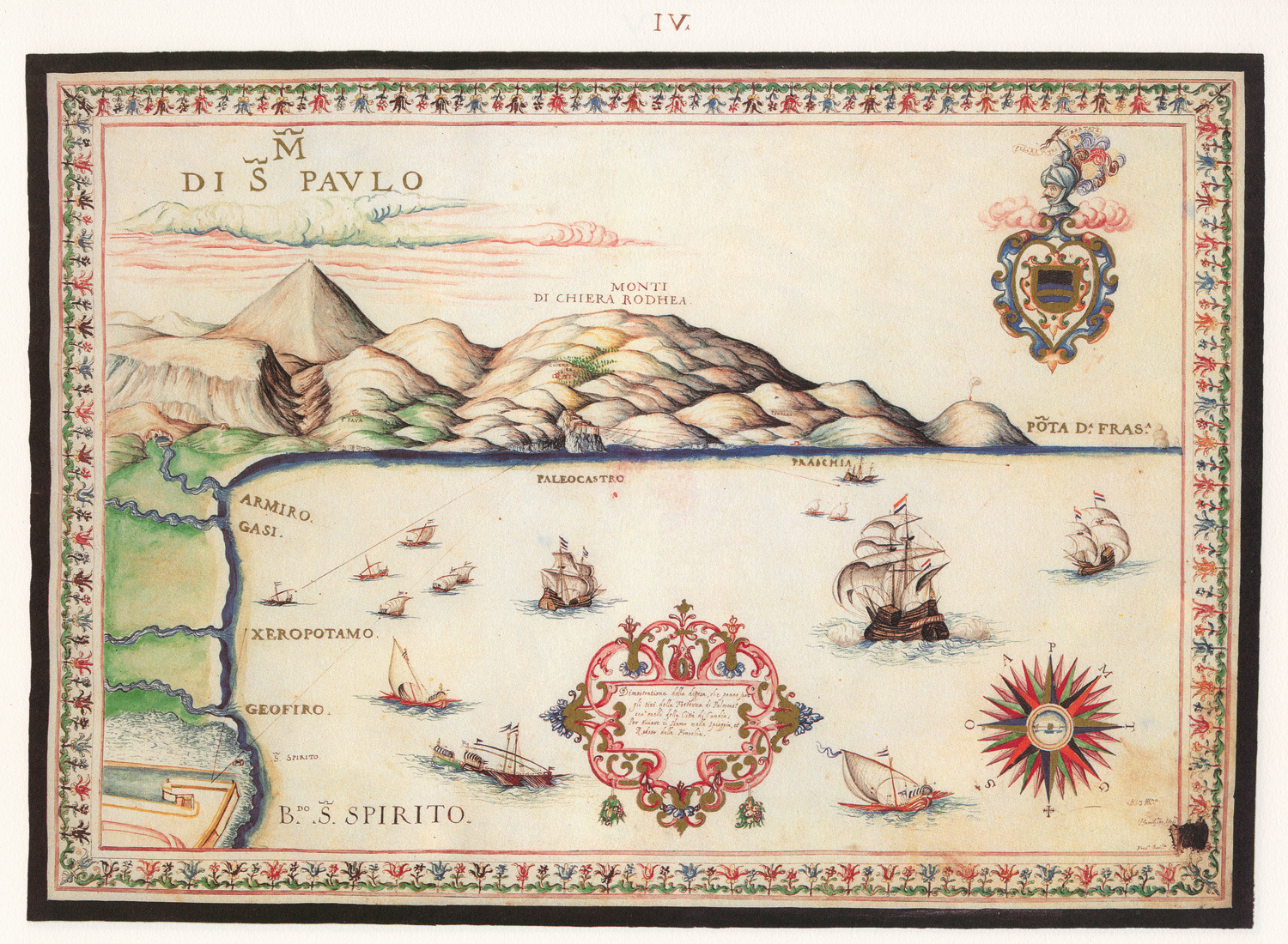 Effetto del Paleocastro, et Città di Ca'dia - Francesco Basilicata - 1618